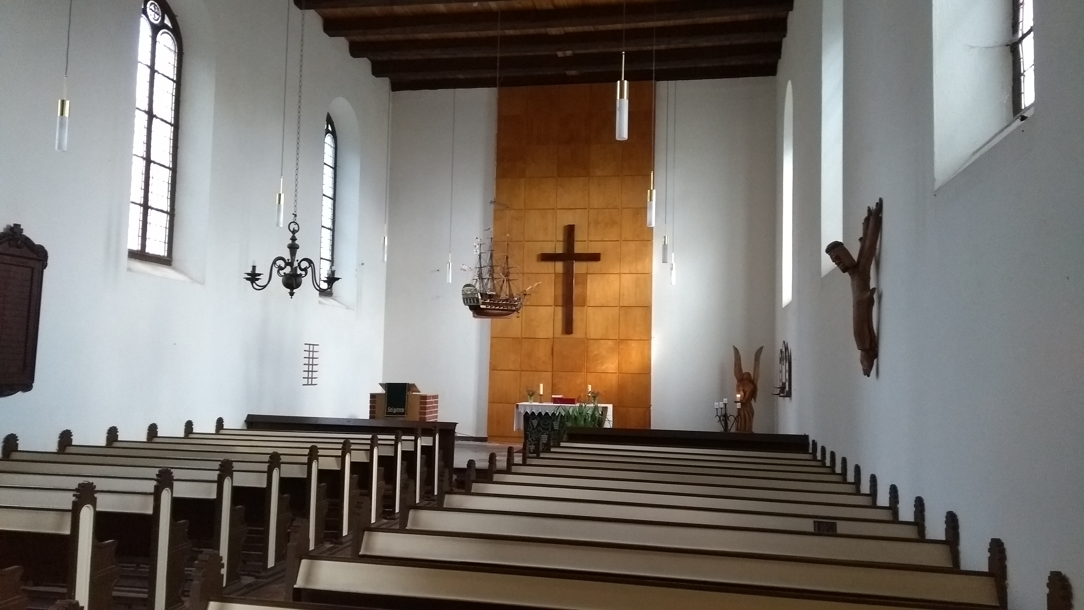 Dierhagen, church